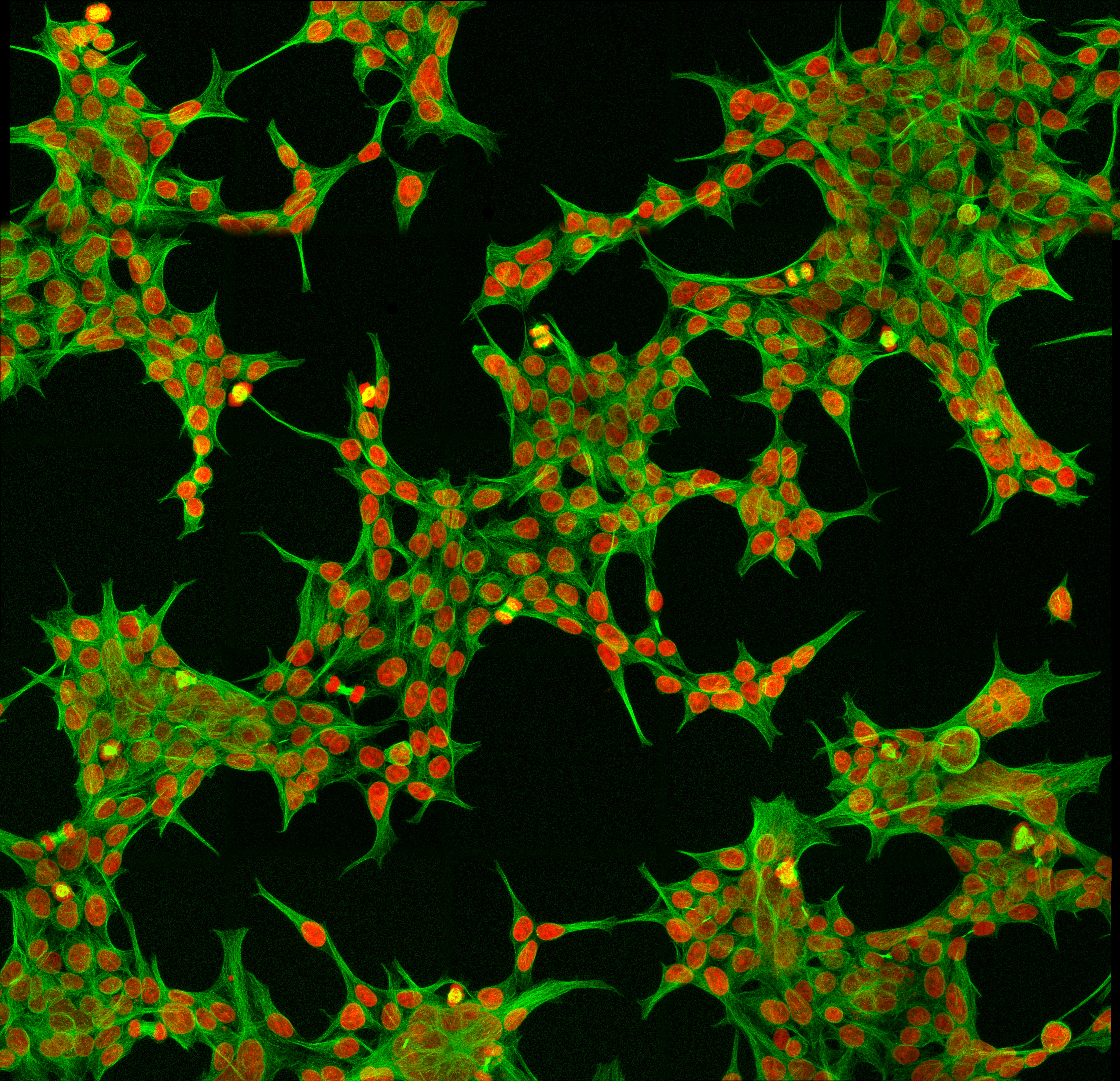 Immunofluorescent Human Embryonic Kidney 293 cells. Phospho-Histone H3 (yellow), phalloidin (green), nuclei (red)